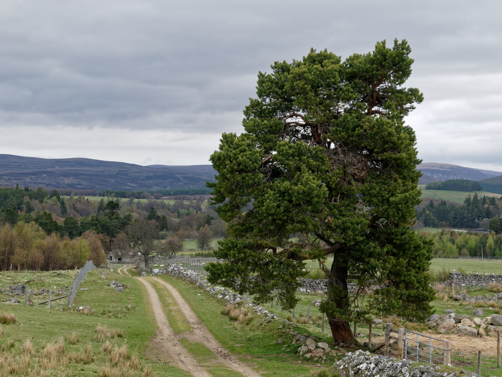 Tree beside the General Wade road from Tomatin to Boat of Garten